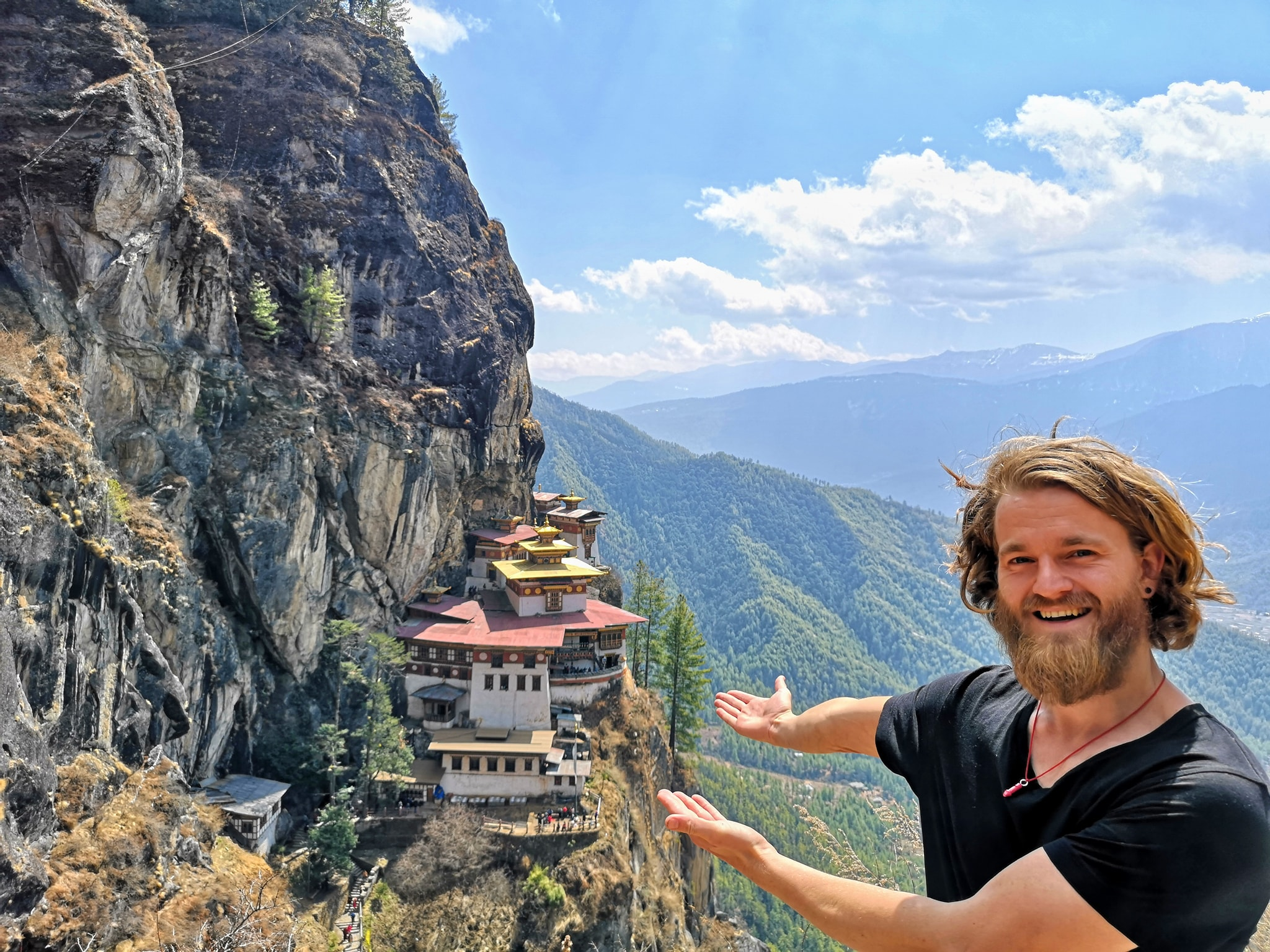 This picture was taken of Jorn Bjorn Augestad during his visit to the Tigers Nest in Bhutan.